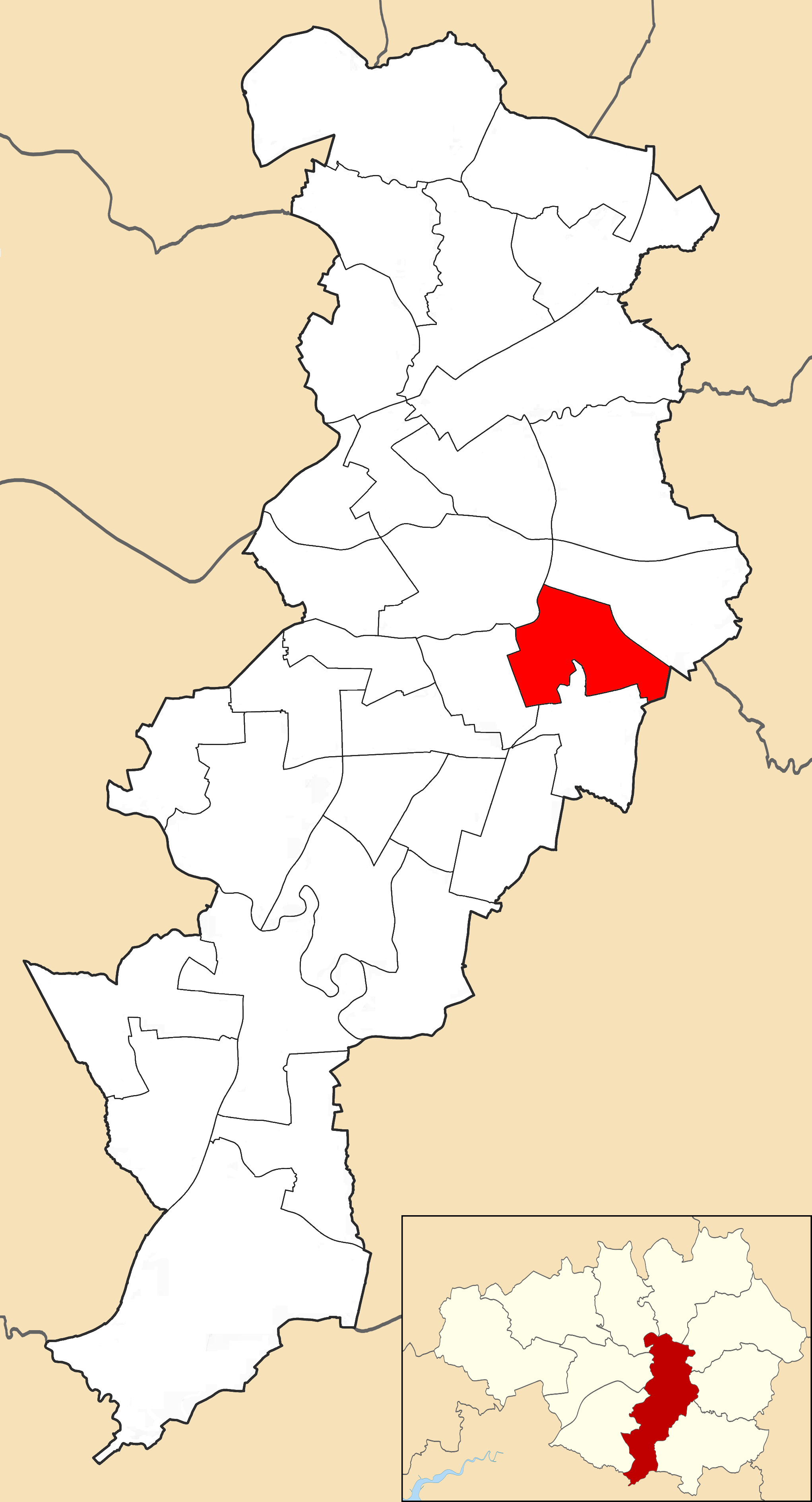 Map showing location of Longsight ward within Manchester City Council.